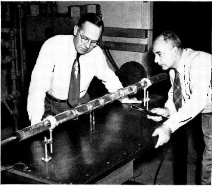 The first zone refining equipment from an advertisement by Bell Telephone Laboratories in an electronics magazine. Zone refining, a technique for purifying materials now widely used in the semiconductor industry, was invented by William Gardner Pfann in 1953. This was the first zone refining tube, with induction heating coiles.